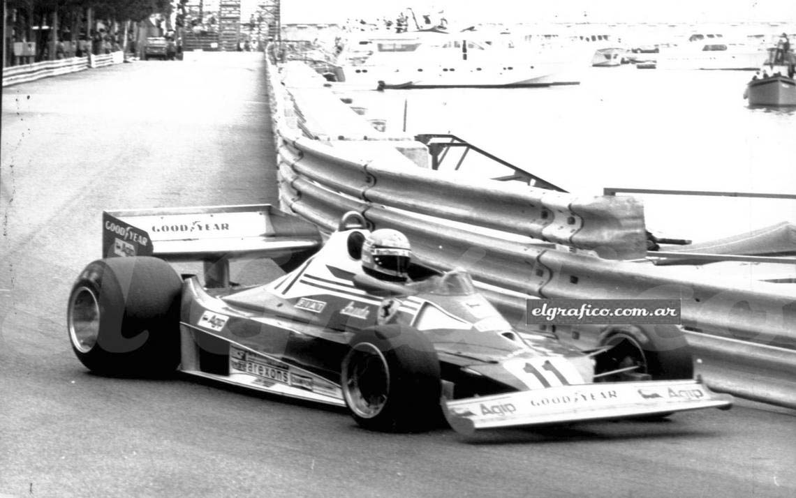 Niki Lauda at the Monaco GP.